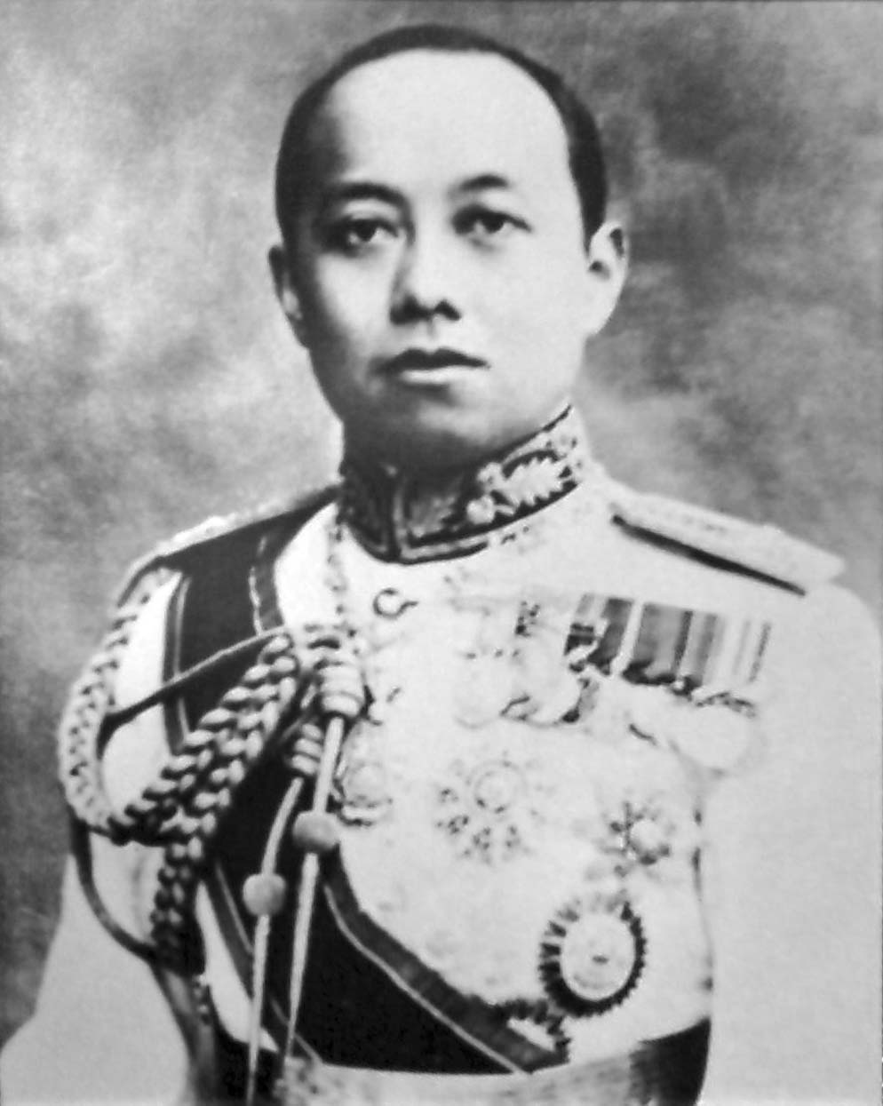 Portrait photograph of King Vajiravudh of Siam, now Thailand